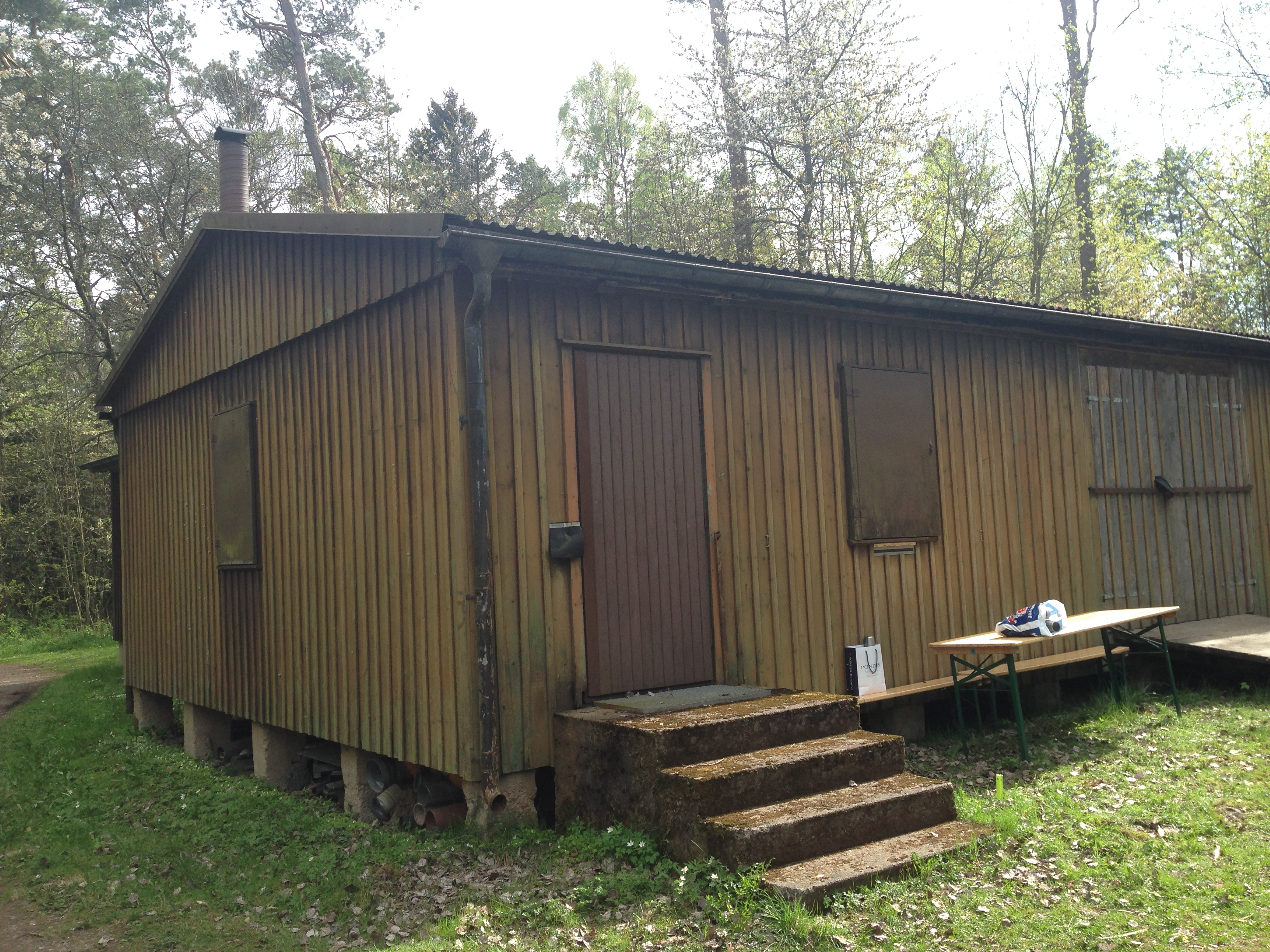 The old dining hall at Ledningsplats Björn, May 2015.